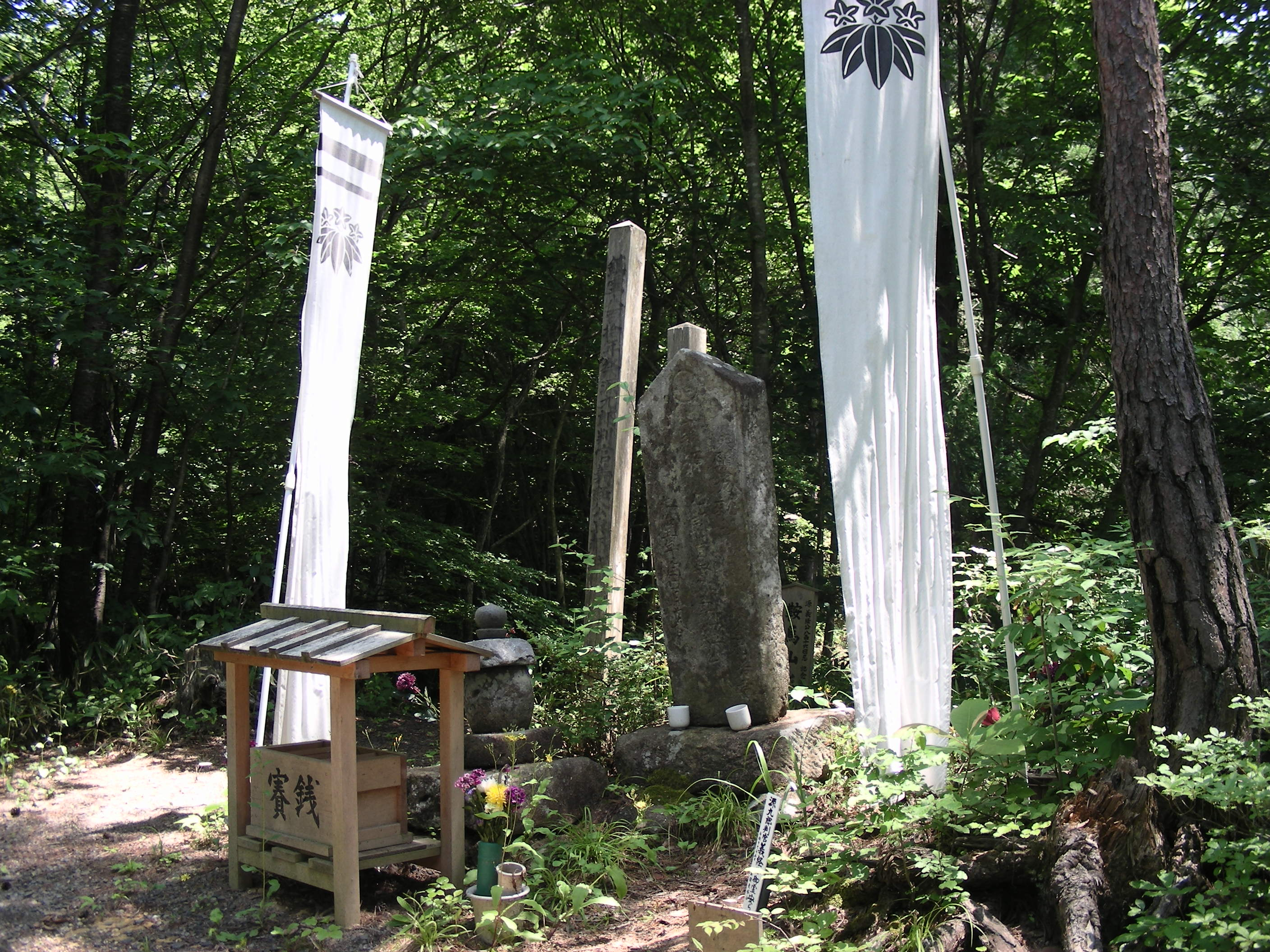 Place of legend where the body of Minamoto no Yoshitsune was burried, Mumakura, Kurikoma, Kurihara, Miyagi prefecture, Japan.